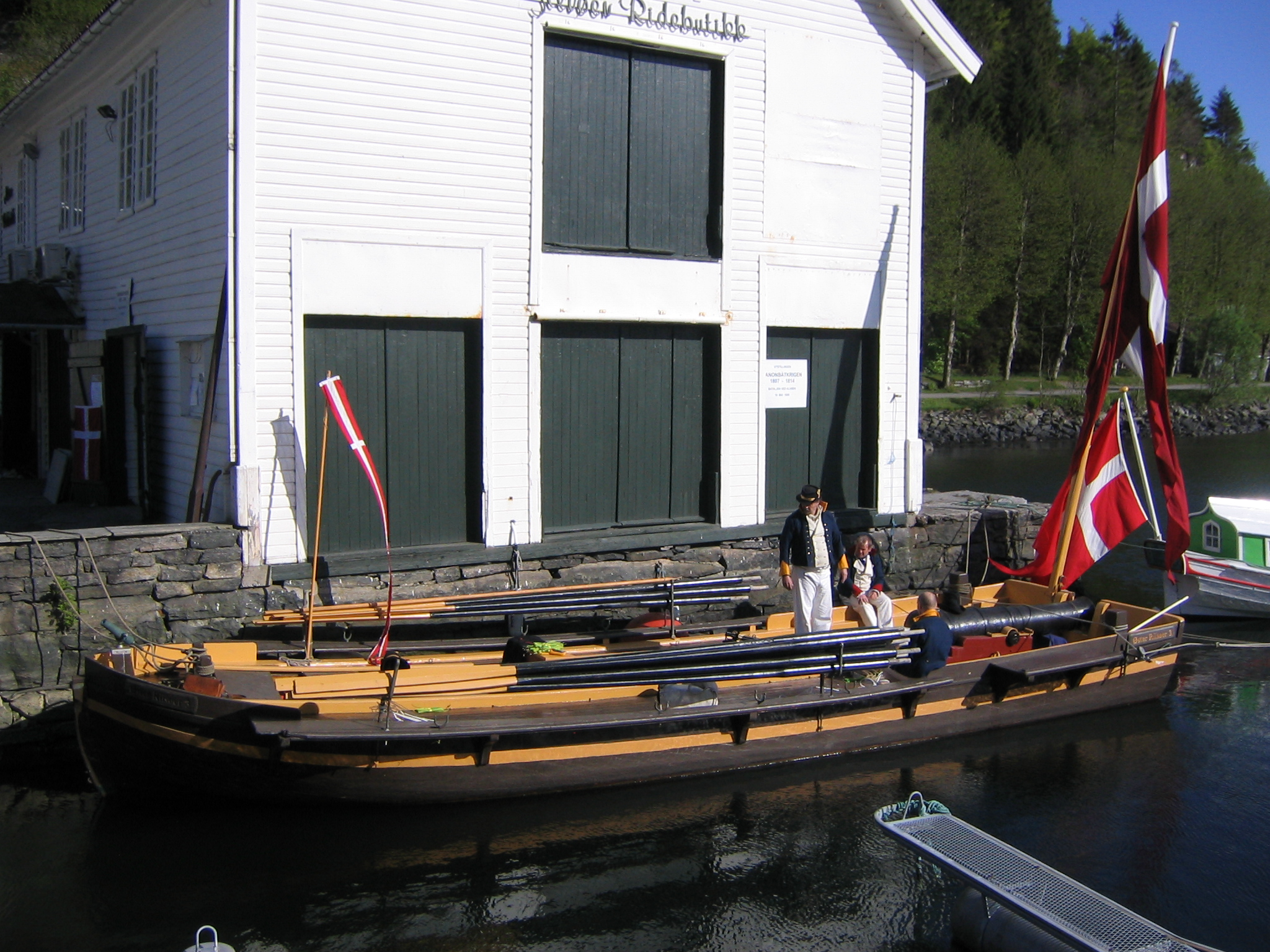 Replica of a gunboat, named Øster Riisøer 3. Two previous gunboats were named Øster Riisøer, early in the 19th century, when this boat-type was widely used to defend Denmark and Norway, after the shared fleet of the united countries had been confiscated by the Royal Navy at Copenhagen in september 1807. The design was originally by Chapman of Sweden. The photo is taken during a reconstruction of a battle at Alvøen, outside Bergen in Norway, 200 years after the incident between 4 gunboats and a gunsloop of the Norwegian navy, and HMS Tartar of the Royal Navy.